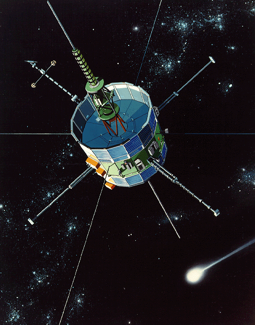 International Cometary Explorer (ICE), formally called International Sun Earth Explorer 3 (ISEE 3), appoaches Comet Giacobini-Zinner.